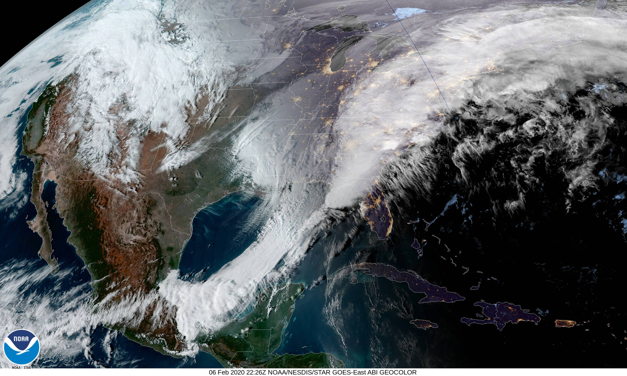 Sunset over large extratropical cyclone impacting the Eastern Half of the US at 2226 UTC on February 6, 2020